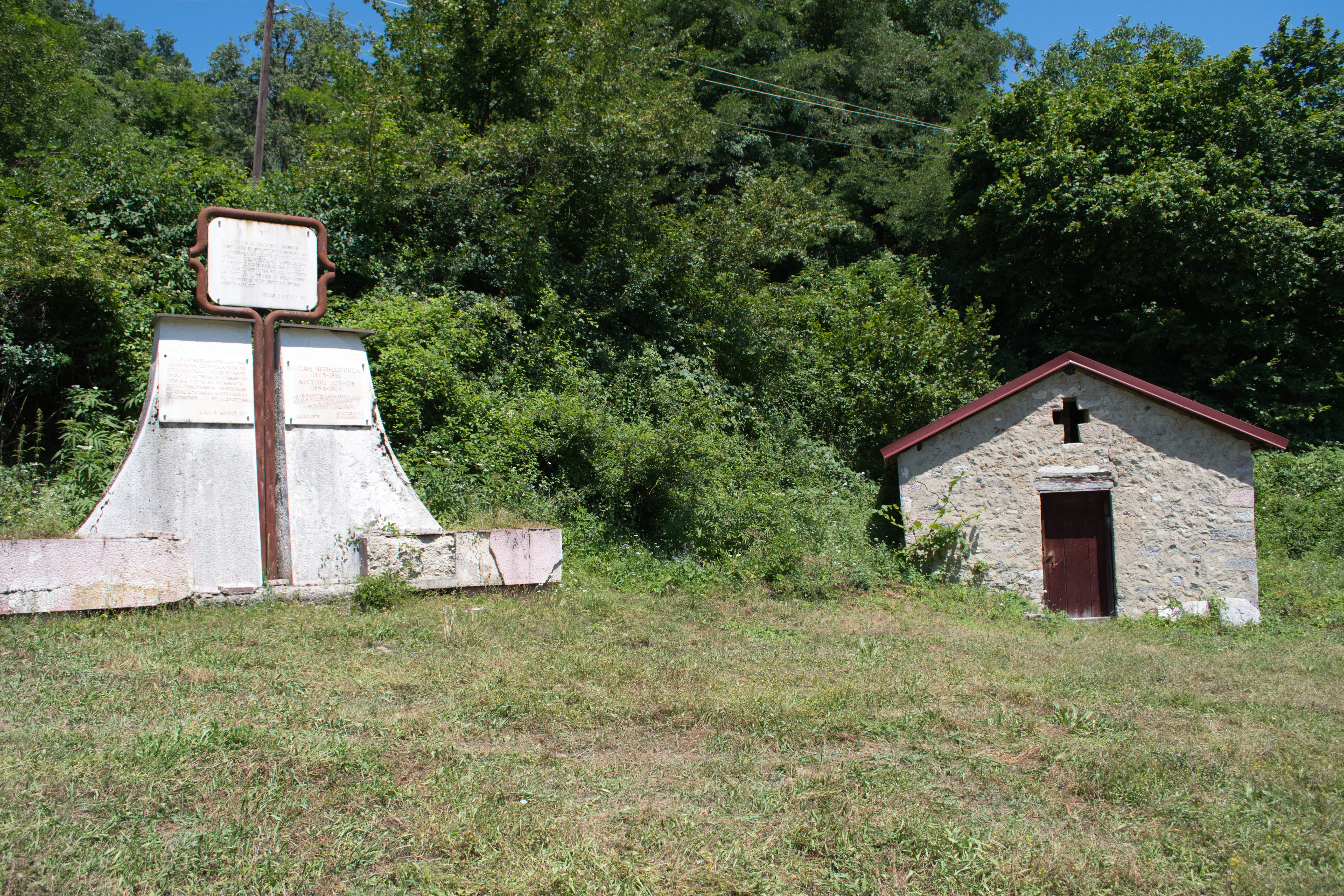 St. Nicholas Church in the village of Selci